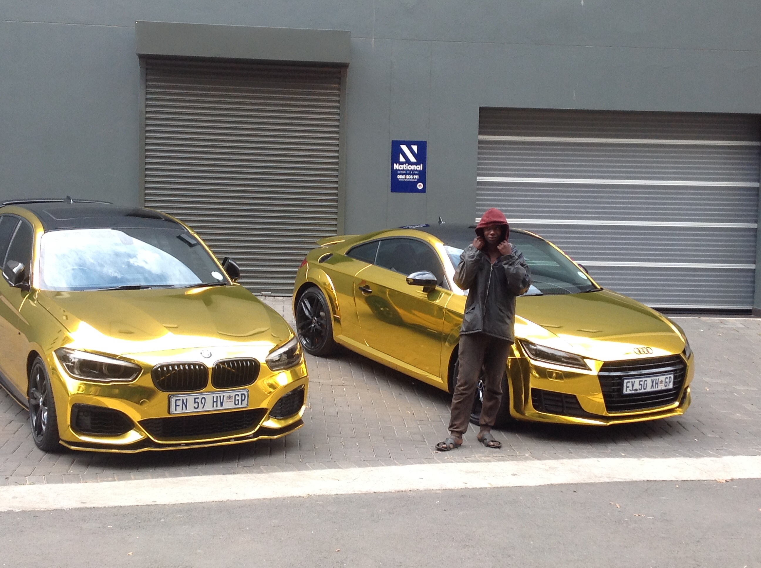 Transport This is an image with the theme "Africa on the Move or Transport" from: South Africa